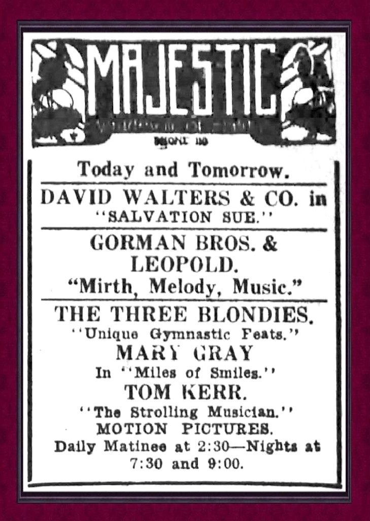 Majestic ad - Gorman bros